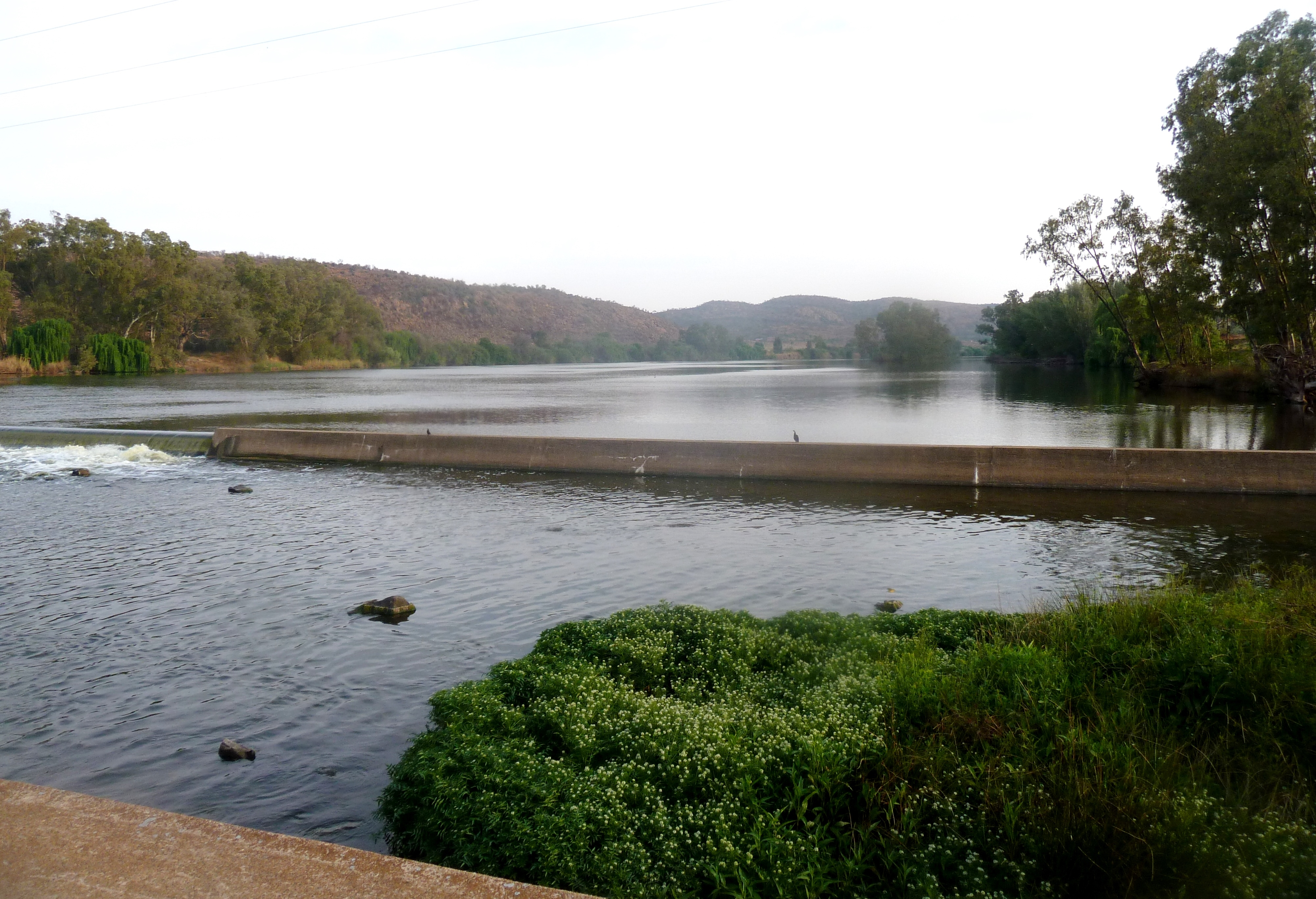 The Vaal River, looking upstream from the causeway at Schoemansdrift in the Vredefort Dome area, on the Northwest/Free State provincial border, South Africa